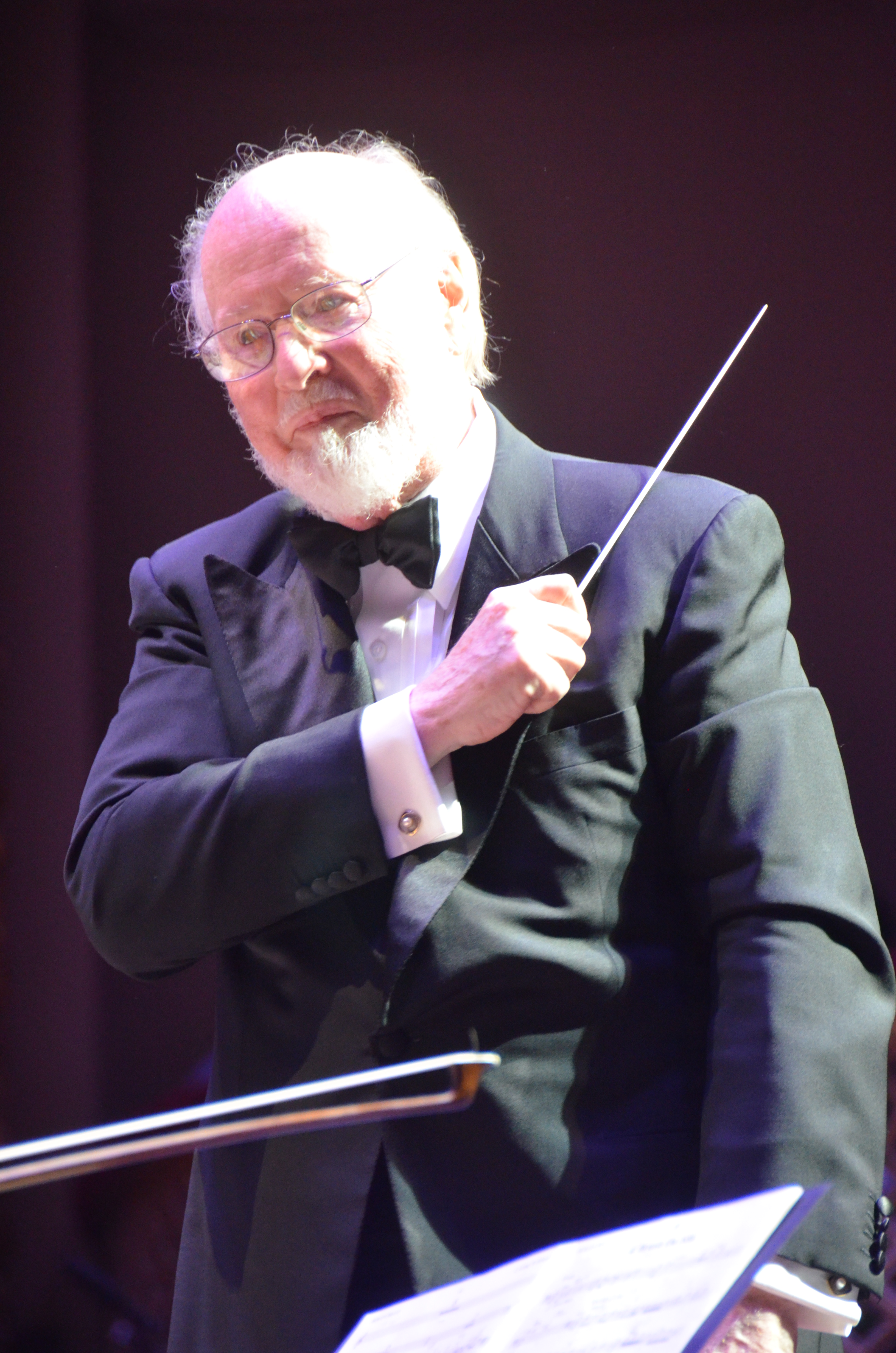 John Williams performs movie music with the Boston Pops, 28 May 2011